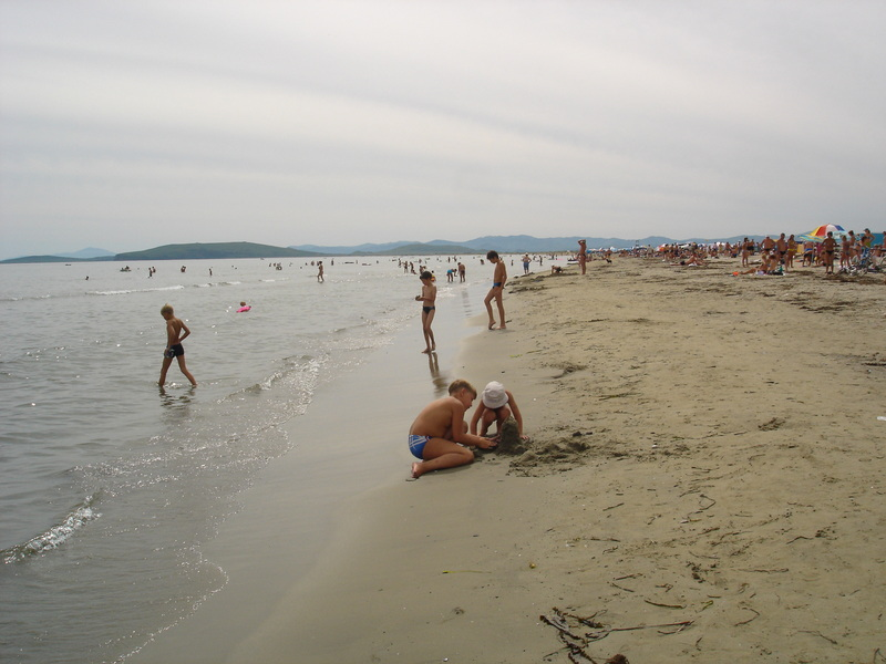 Baklan Baklan in summer near Slavyanka settlement